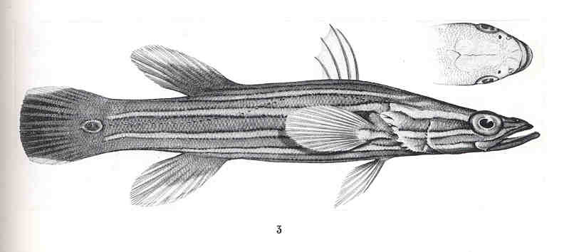 Rainfordia opercularis, McCulloch Holotype, 124 mm. long, from Whitsunday Passage, Queensland Subject: Rainfordia opercularis Tag: Fish